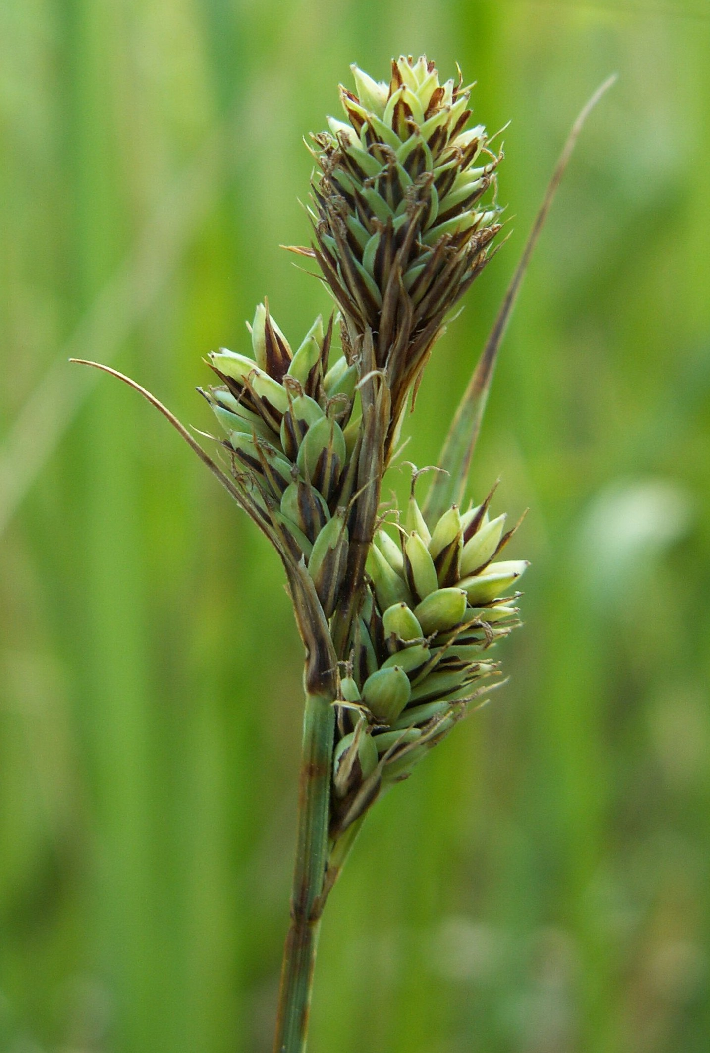 Inflorescences of Carex buxbaumii. Near Miedwie Lake, NW Poland.